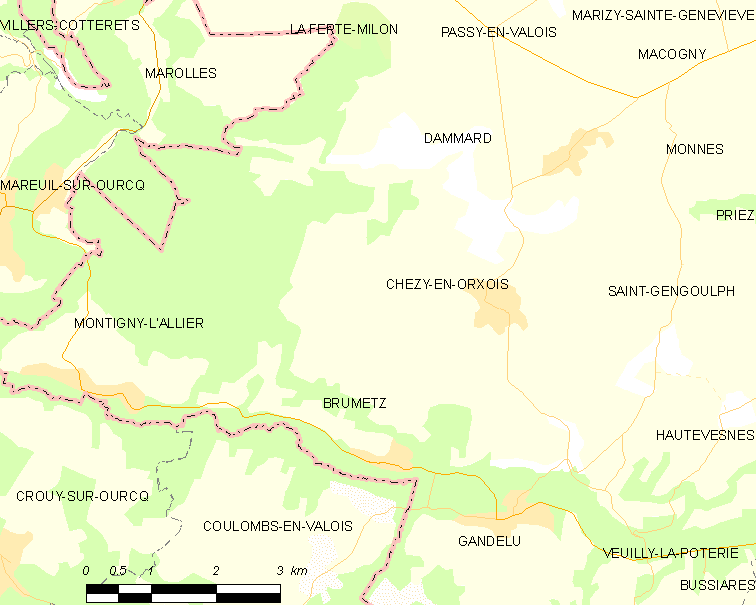 Map of French commune: Chézy-en-Orxois Map commune FR insee code 02185.png